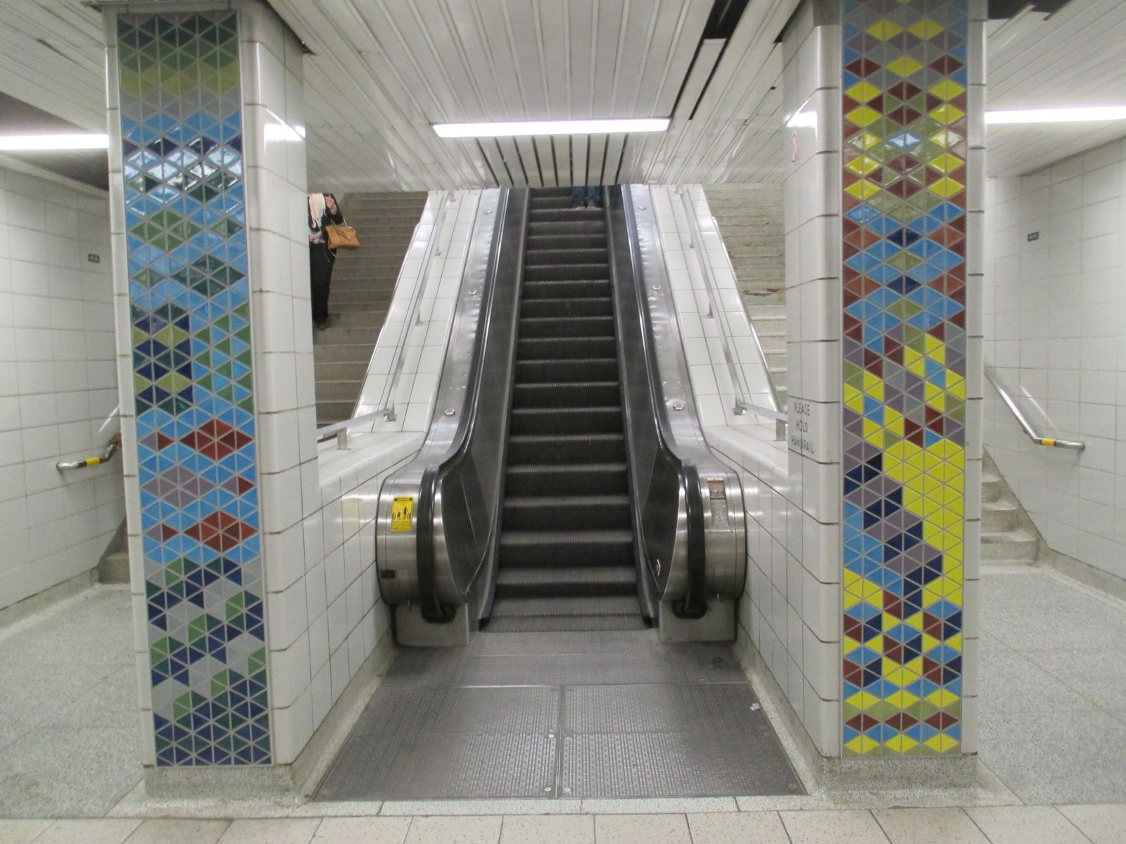 Artwork in Sherbourne station on Toronto subway Line 2 Bloor–Danforth: "The Whole is Greater than the Sum of its Parts" by Rebecca Bayer consisting of colourful mosaic panels.